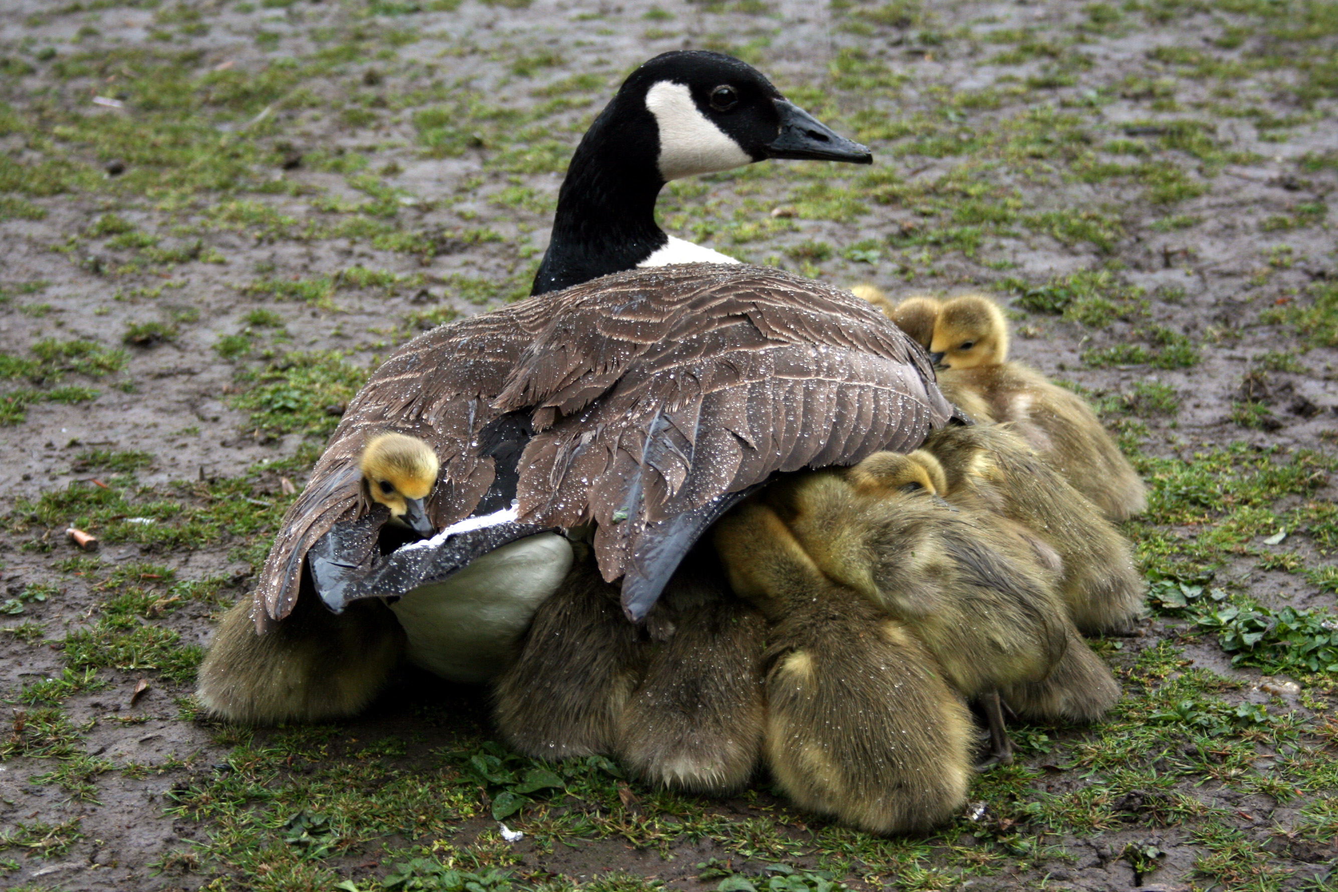 A mother goose shading her young from the rain (goslings don't yet have water proof feathers).